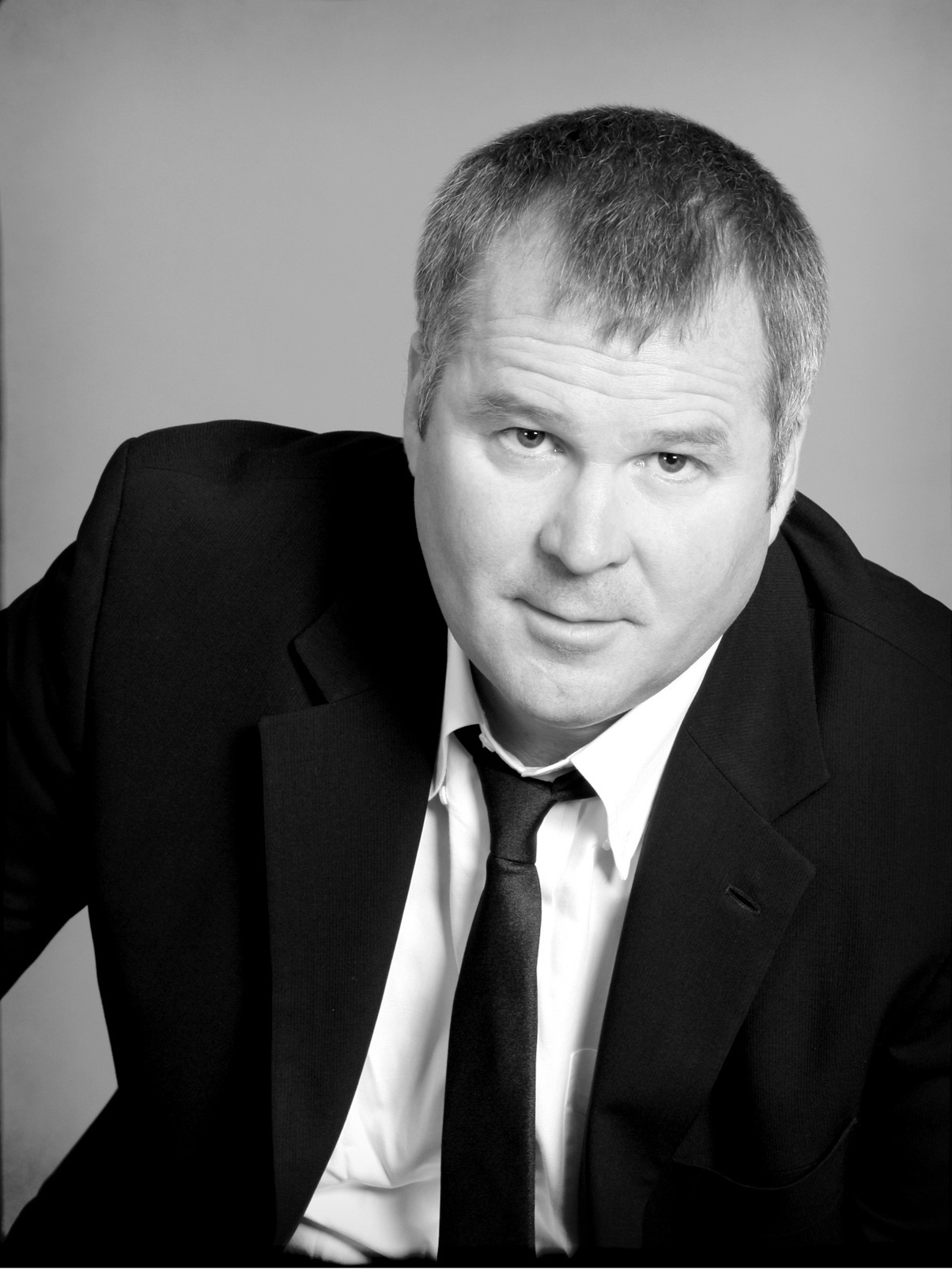 Colm Magner photo.